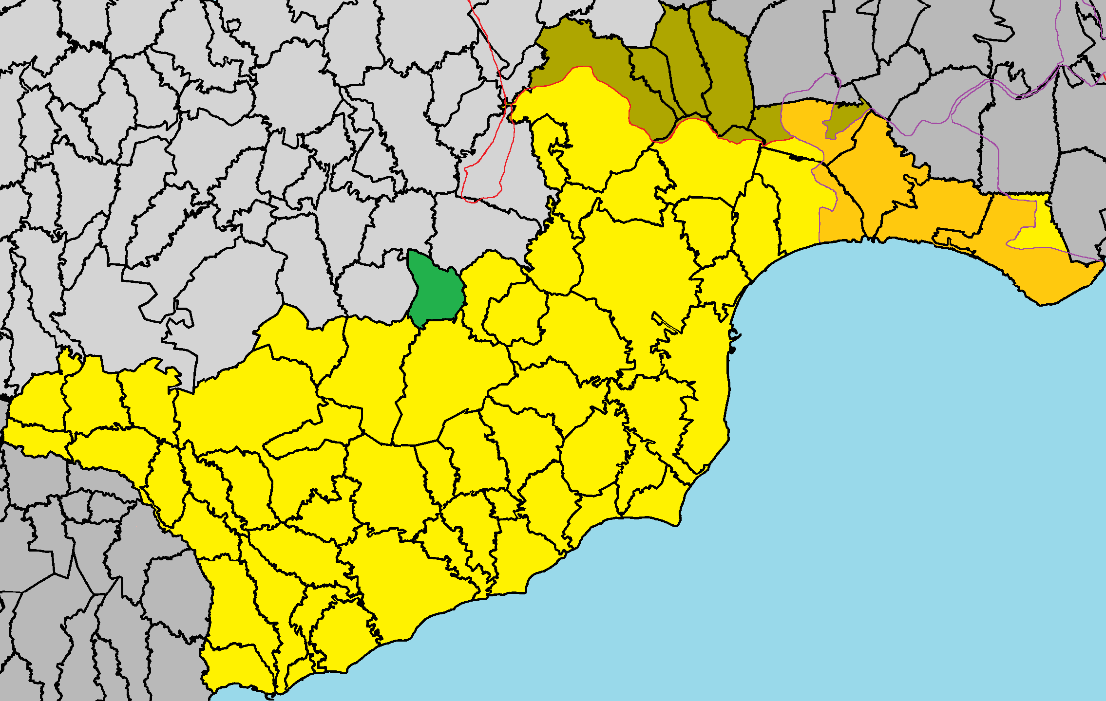 Mosfiloti in Larnaca District.